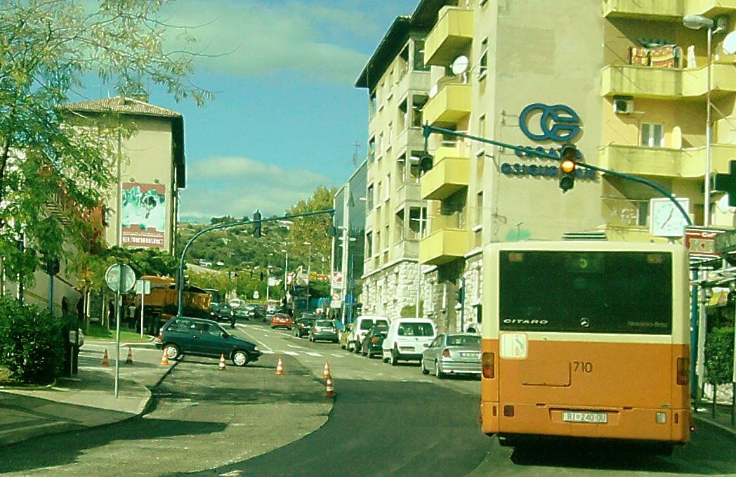 Intersection in Osječka